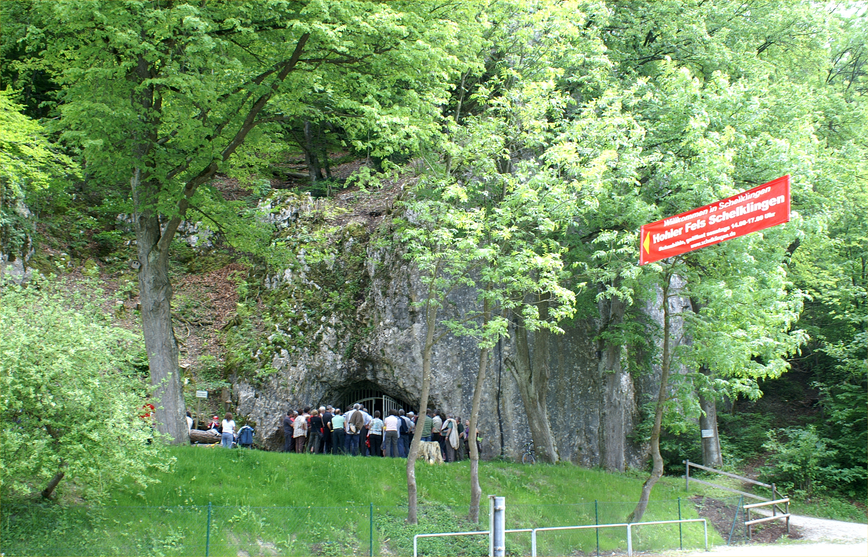 The Hohle Fels near Schelklingen in the Alb-Donau-Kreis is a sponge stump of the White Jura. The sugar-coated rock lies in the valley of the Urdonau.